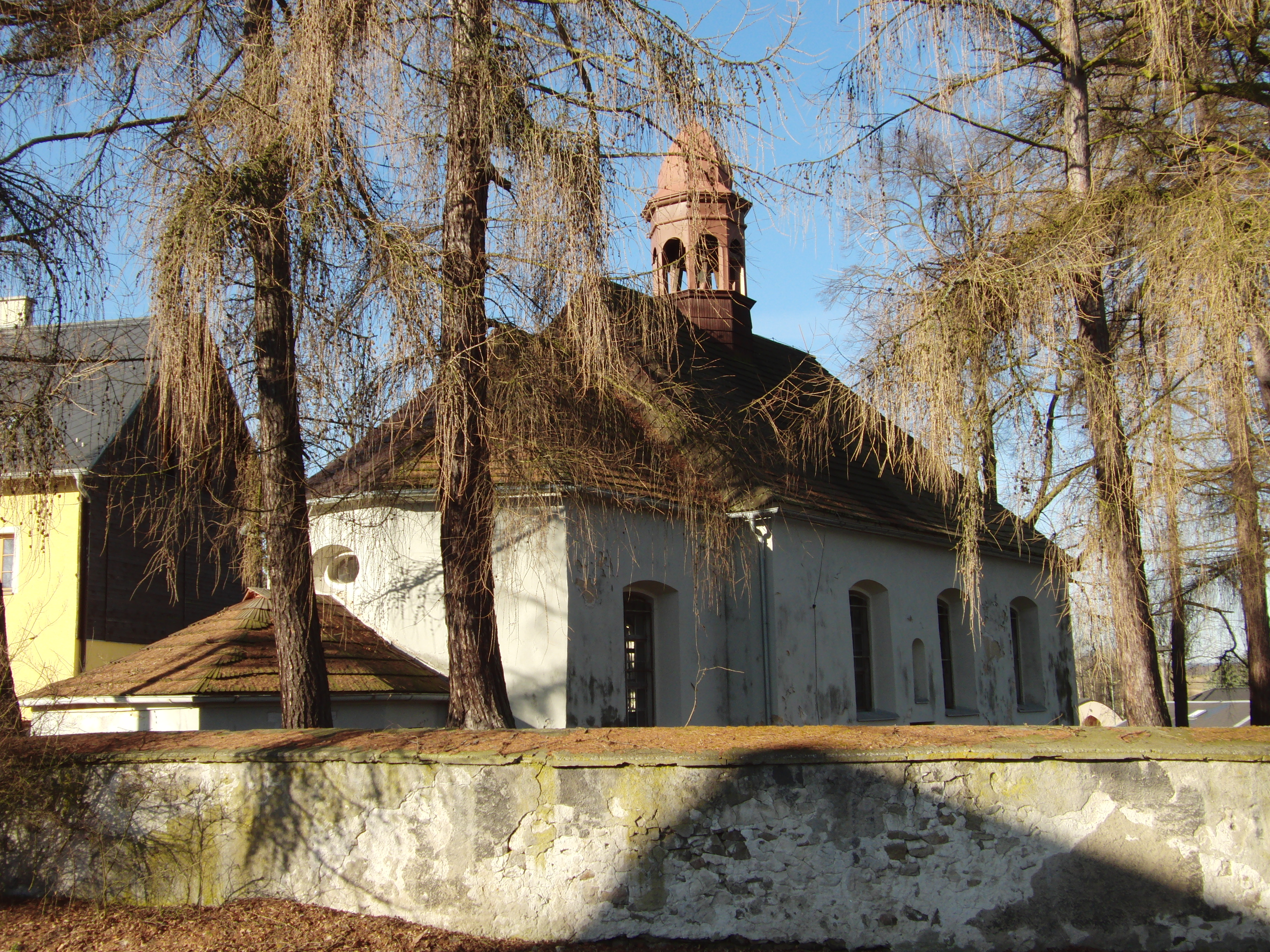 St. Catherine church in Olšová Vrata, Karlovy Vary, cultural monument